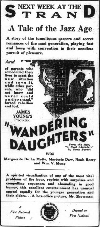 Advertisement for the American comedy film Wandering Daughters (1923), on page 22 of the June 28, 1923 Variety.